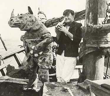 Screenshot of film still from the 1915 Lubin release The Ringtailed Rhinoceros; scene from dream sequence showing the character John Carter-Carter (Raymond Hitchcock) drinking a bottle of rum alongside the title character on the deck of a pirate ship.